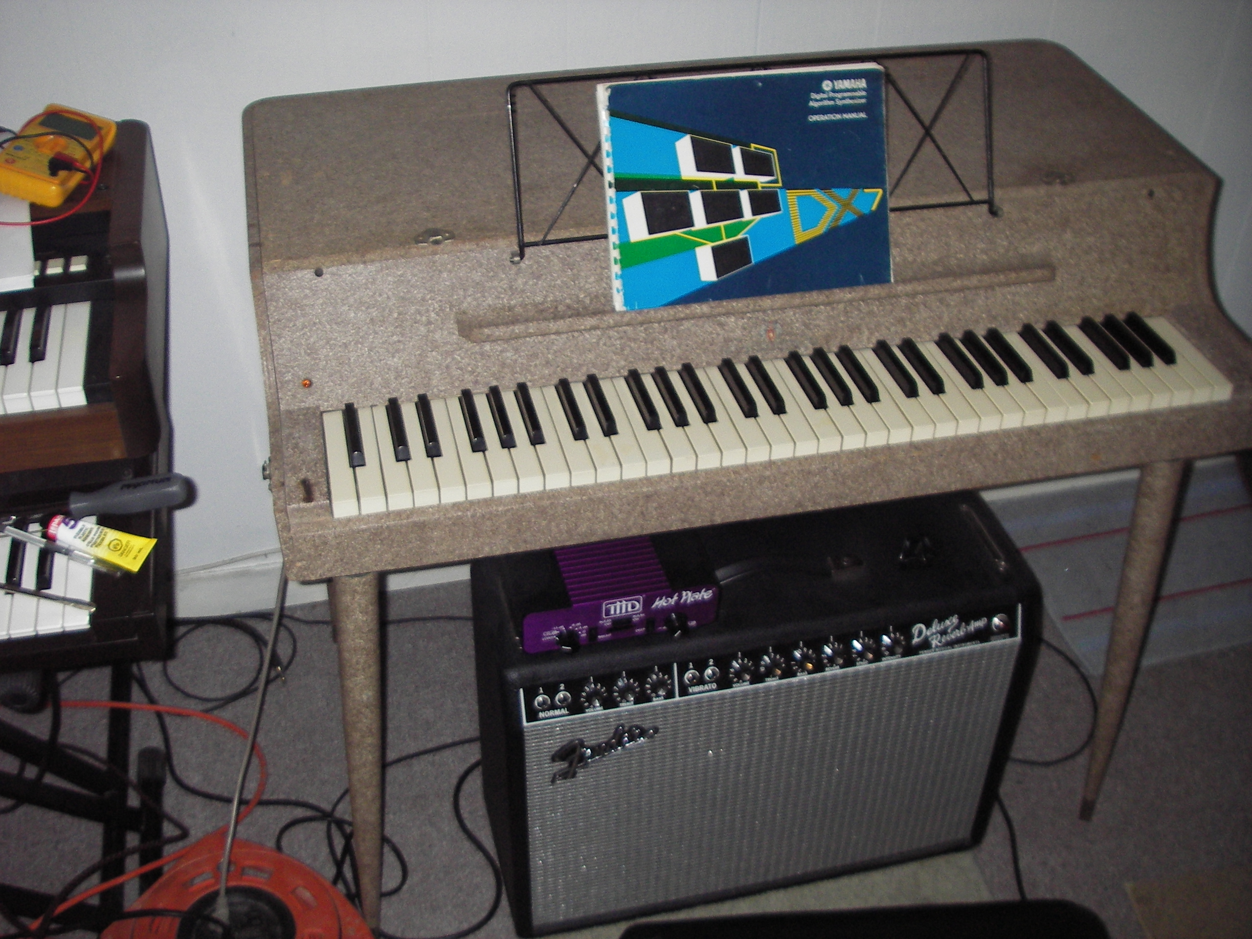 1956 Wurlitzer model 112 electric piano with original legs (damper pedal missing).